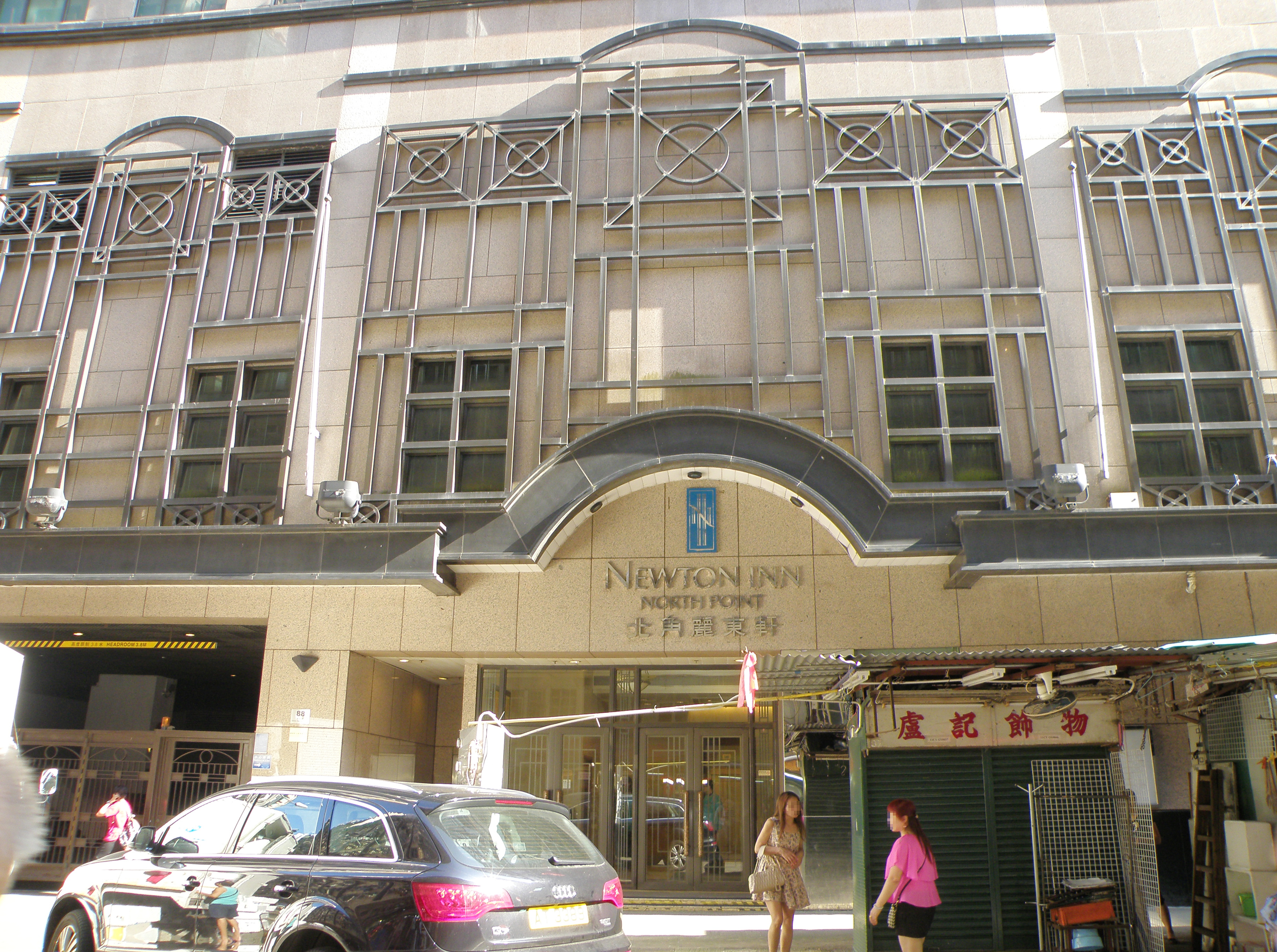 Newton Inn in North Point, Hong Kong.